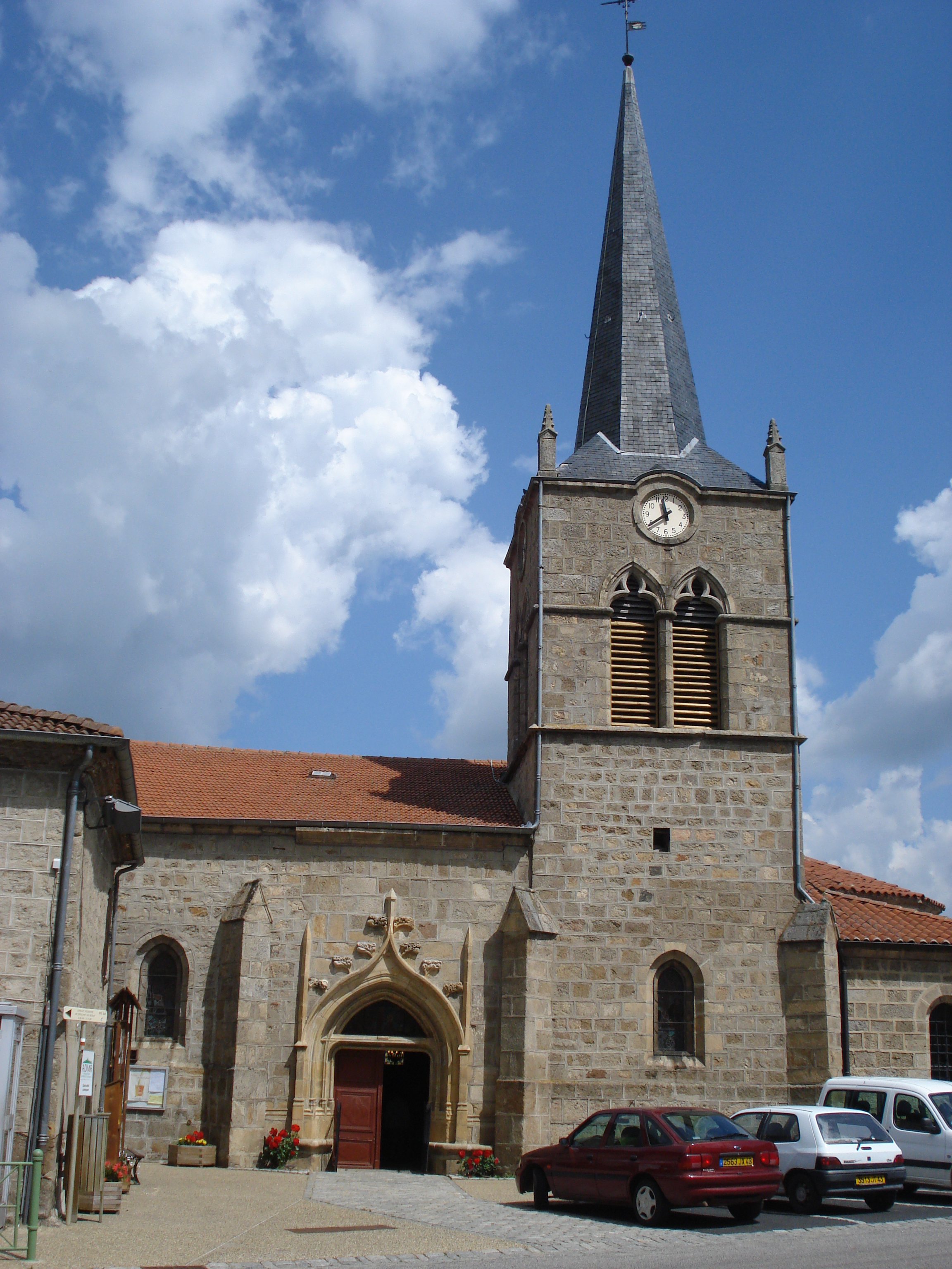 Boisset (Haute-Loire, Fr), the church with its portal.